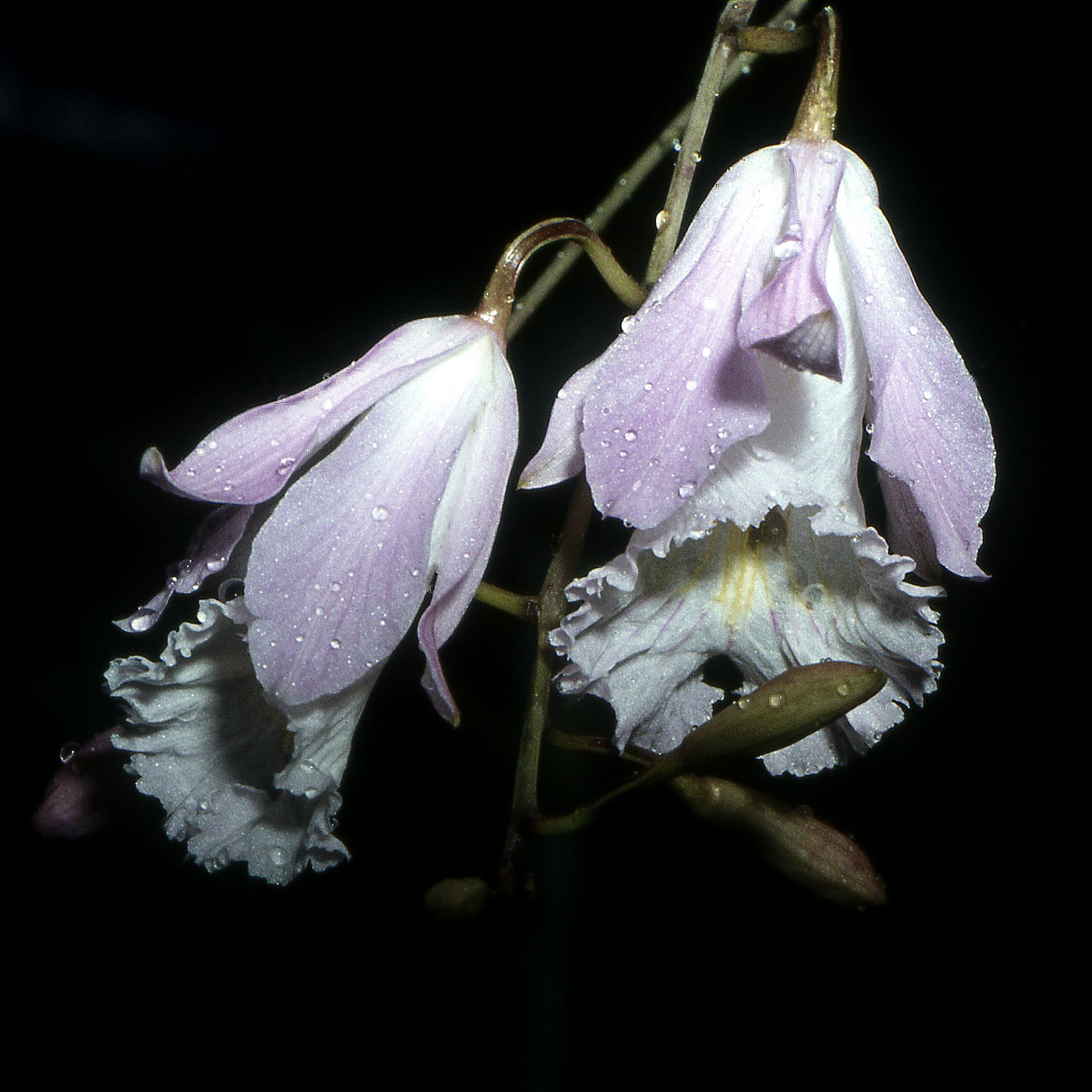 Broughtonia lindenii